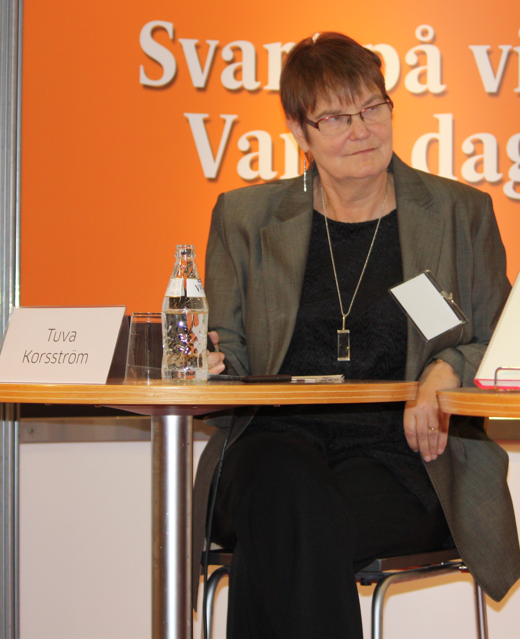 Finnish journalist and essayist Tuva Korsström at the Helsinki Book Fair 2010.